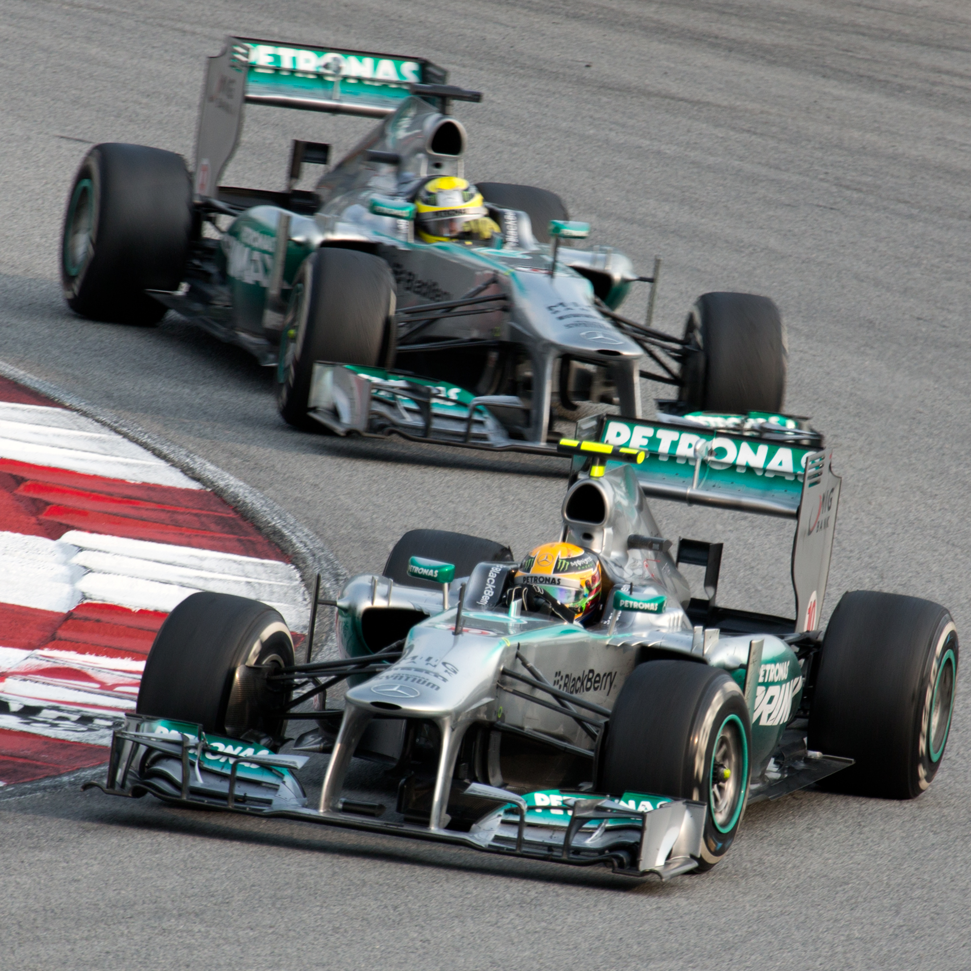 Formula One 2013 Rd.2 Malaysian GP: Lewis Hamilton (Mercedes) and Nico Rosberg (Mercedes). Rosberg does not try to overtake Hamilton.